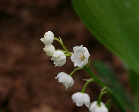 Convallaria majalis : Flowers